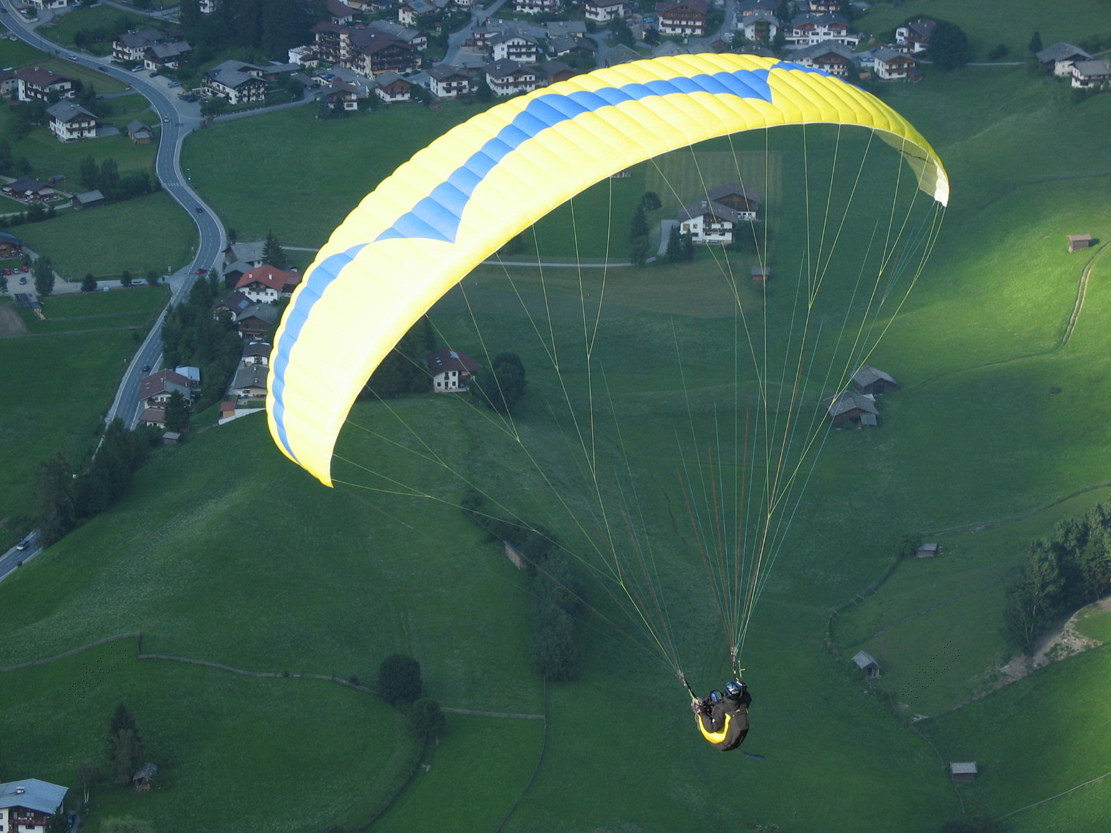 Paraglider on air, above Neustift, Stubai Tal, Tirol, Austria.